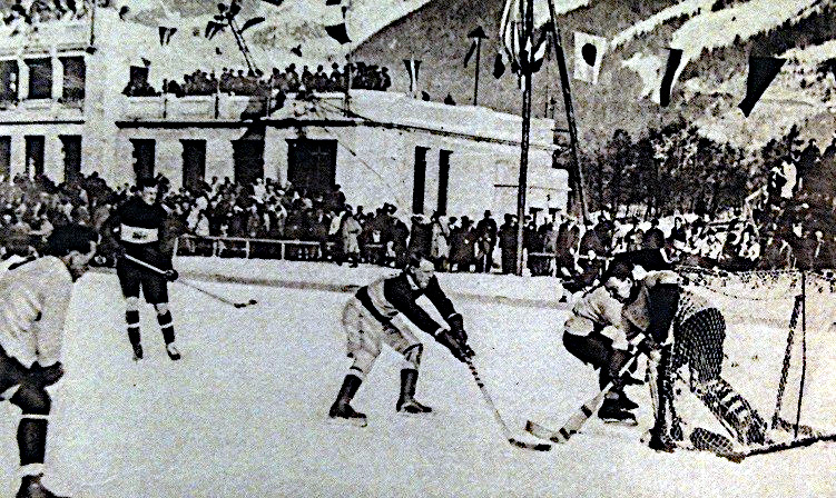 1924 Winter Olympics game between Canada and Great Britain